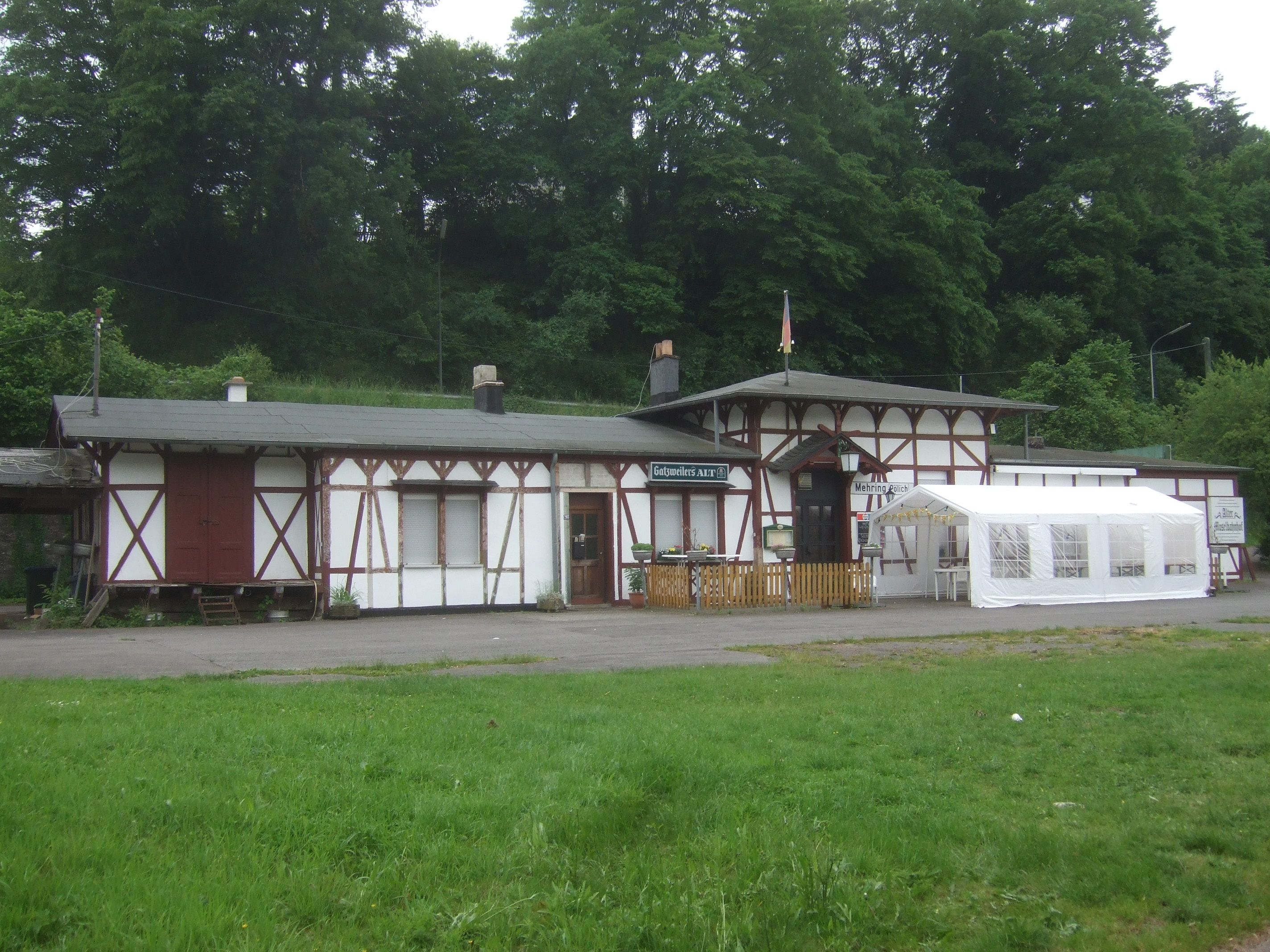 Mehring, ehemaliges Bahnhofsgebäude der Moselbahn.